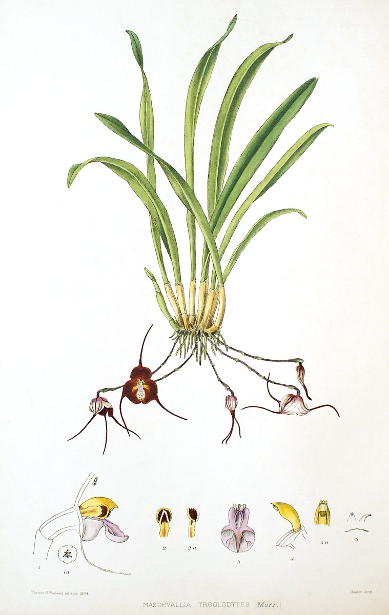 Illustration of Dracula benedictii from Florence H. Woolward: The Genus Masdevallia